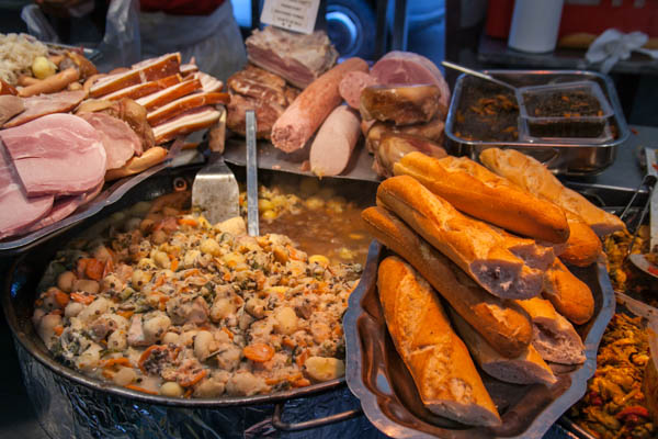 There is no way away around it - the food in Paris is incredible. On the day my old friends Francie and Bernadette came over from Belgium we did a long marching tour of Paris - and went through an open air market - my God - the smells and sights - it was sensory overload - great food everywhere. We sampled some it - oo la la - but it was just around closing time and they were putting everything away or I could have lingered there for hours. Who wants to go sightseeing when there is good food to be had?